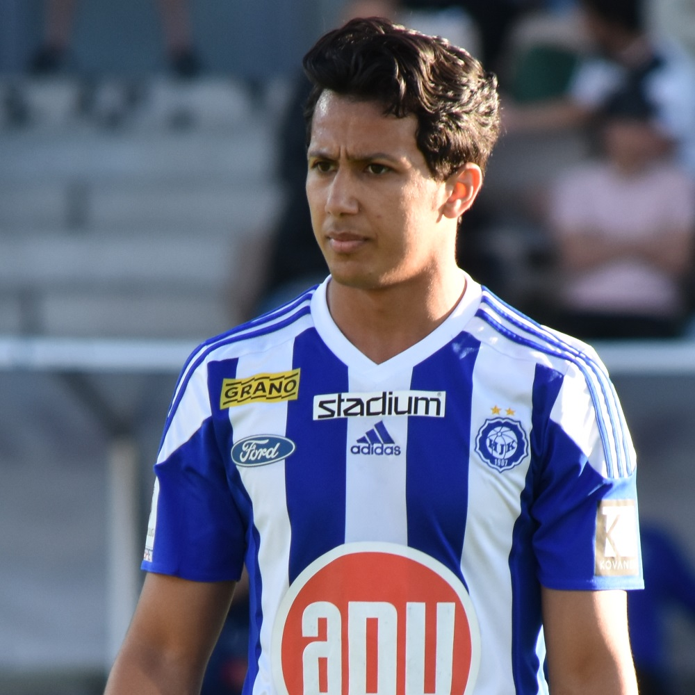 Association football player Amr Gamal (HJK)